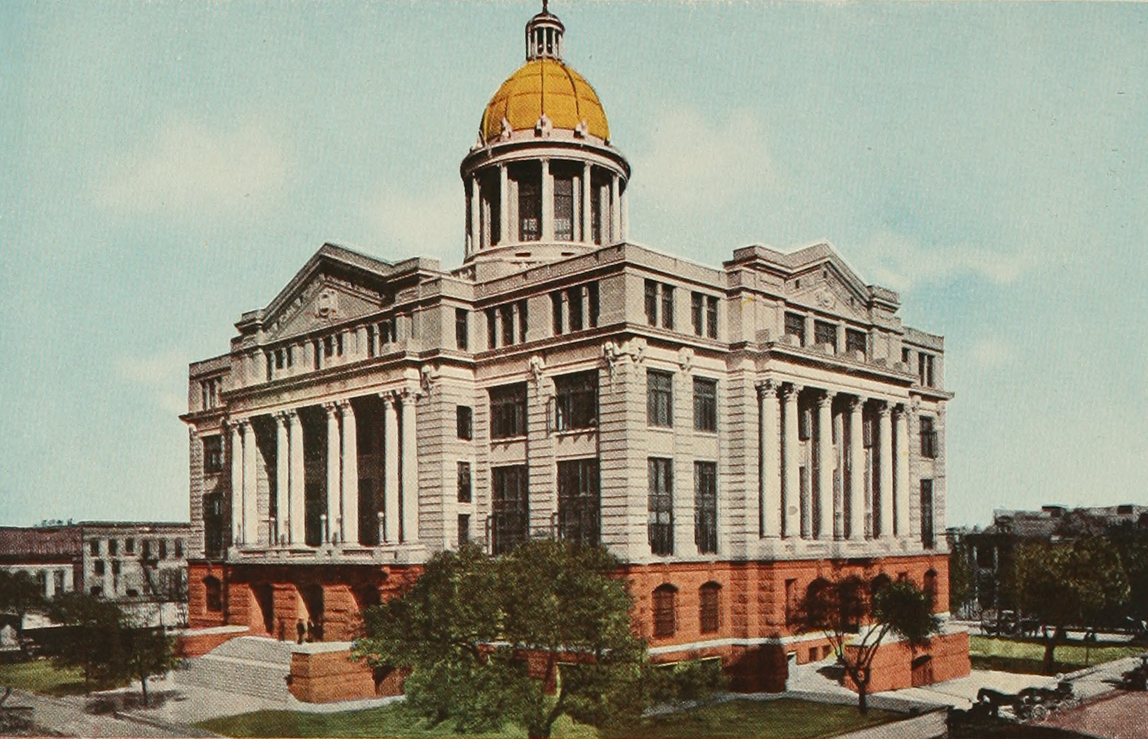 The old Harris County Courthouse - From "Houston: Where Seventeen Railroads Meet the Sea" Page 14/40 "Harris County Court House at Houston. Harris County, With Taxable Valuations of $128,500,000, Is the Richest county in Texas."